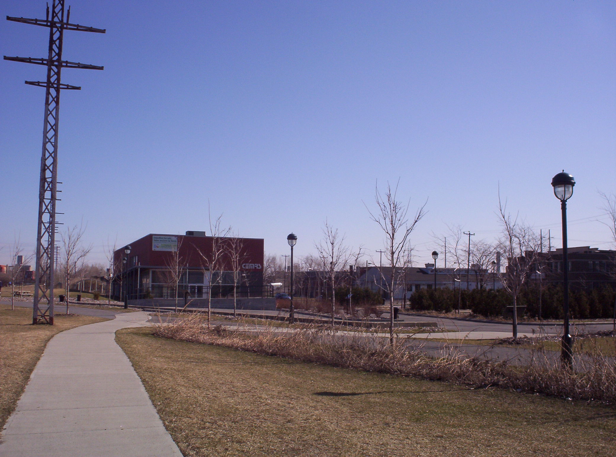 View on Centre d'excellence de Montréal en réhabilitation de sites, depollution experimenting site near Lachine Canal in Montréal, Quebec